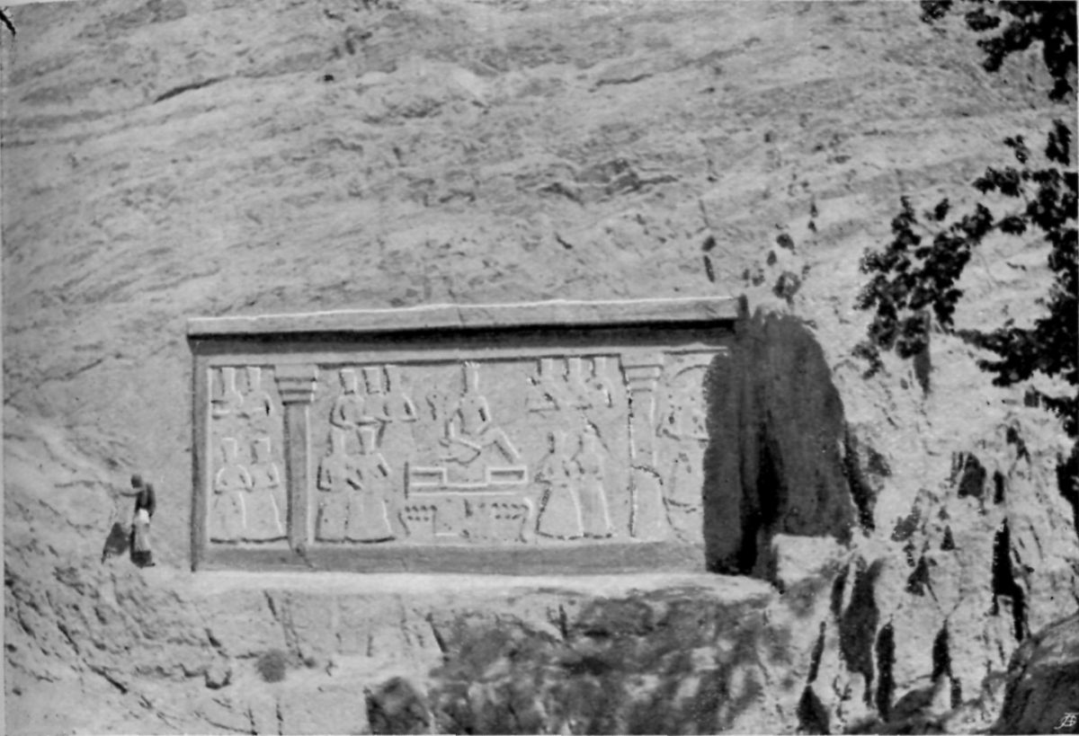 Rock Sculpture near Shah-Abdul-Azim. Photographed by Arnold Henry Savage Landor, 1901, probably October. From page 244 of ACROSS COVETED LANDS. Landor's description: "To the right of the road, some little distance before reaching the mosque, a very quaint, large high-relief has been sculptured on the face of a huge rock and is reflected upside down in a pond of water at its foot. Men were bathing here in long red or blue drawers, and hundreds of donkeys were conveying veiled women to this spot. An enormous tree casts its shadow over the pool of water in the forenoon. It is interesting to climb up to the high-relief to examine the figures more closely. The whole sculpture is divided into three sections separated by columns, the central section being as large as the two side ones taken together. In the centre is Fath-ali-shah—legless apparently—but supposed to be seated on a throne. He wears a high cap with three aigrettes, and his moustache and beard are of abnormal length. In his belt at the pinched waist he disports a sword and dagger, while he holds a bâton in his hand. There are nine figures to his right in two rows: the Naib Sultaneh, Hussein Ali, Taghi Mirza, above; below, Mahommed, Ali Mirza, Fatali Mirza, Abdullah Mirza, Bachme Mirza, one figure unidentified. To the Shah's left the figures of Ali-naghi Mirza and Veri Mirza are in the lower row; Malek Mirza, the last figure to the left, Hedar Mirza and Moh-Allah-Mirza next to Fath-Ali-Shah. All the figures are long-bearded and garbed in long gowns, with swords and daggers. On Fath-Ali-Shah's right hand is perched a hawk, and behind his throne stands an attendant with a sunshade, while under the seat are little figures of Muchul Mirza and Kameran Mirza. There are inscriptions on the three sides of the frame, but not on the base. A seat is carved in the rock by the side of the sculpture."